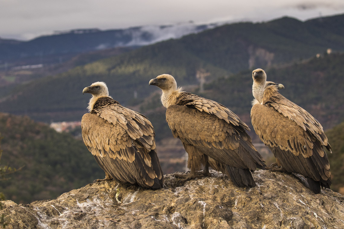 Eurasian Griffons - Catalan Pyrenees - Spain_MG_4180